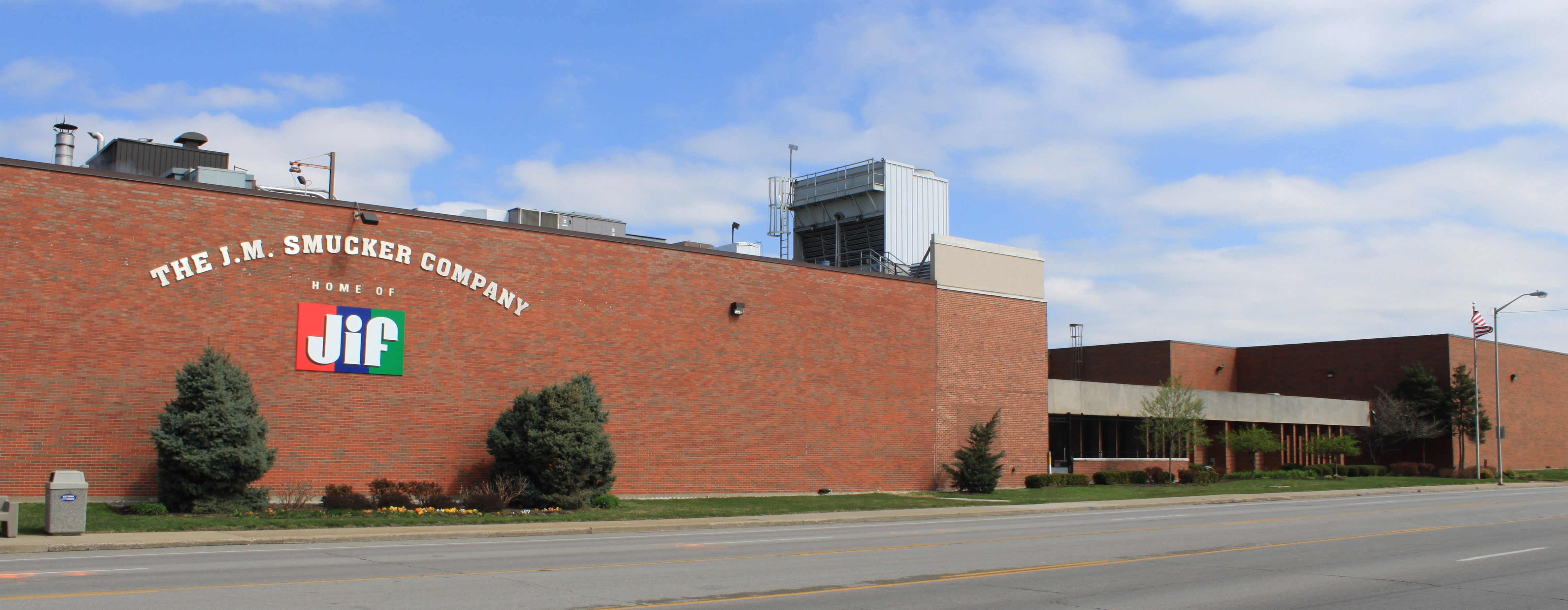 J.M. Smucker Jif peanut butter production plant, 767 Winchester, Lexington, Kentucky